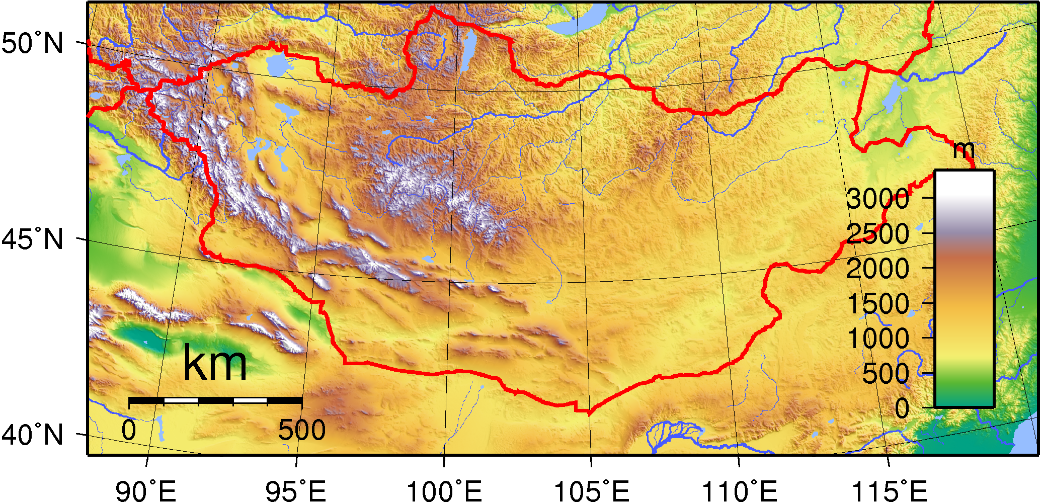 Topographic map of Mongolia. Created with GMT from publicly released SRTM data.